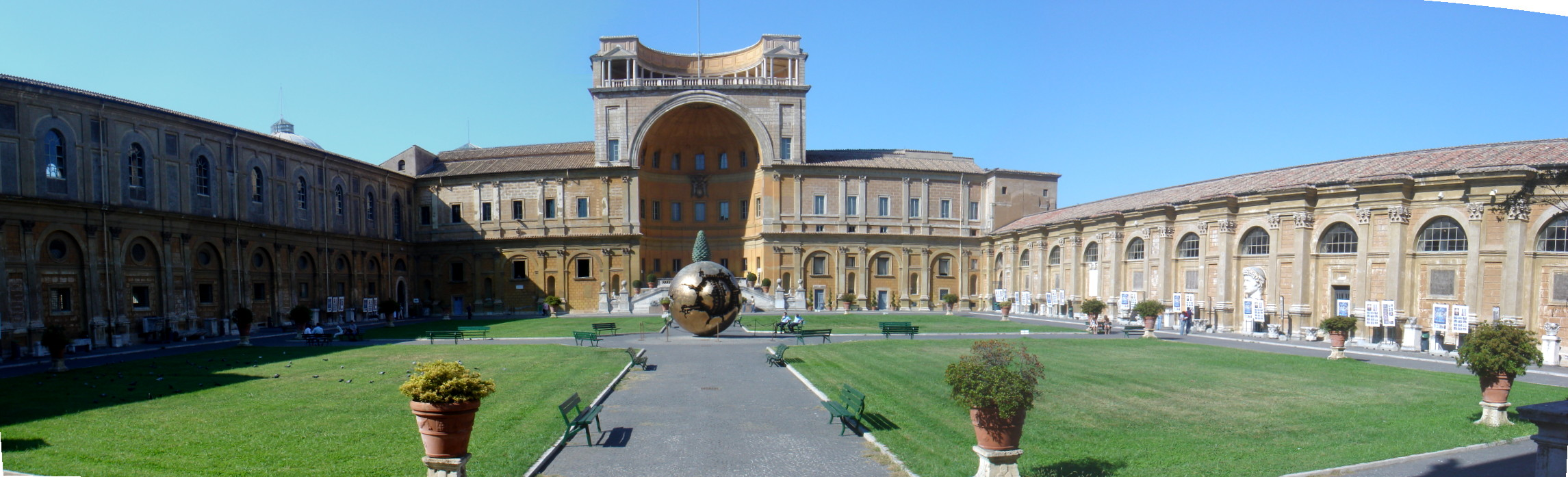 Vatican Museums Native nameMusei VaticaniLocationVatican CityCoordinates41° 54′ 23″ N, 12° 27′ 16″ E Established1506Website